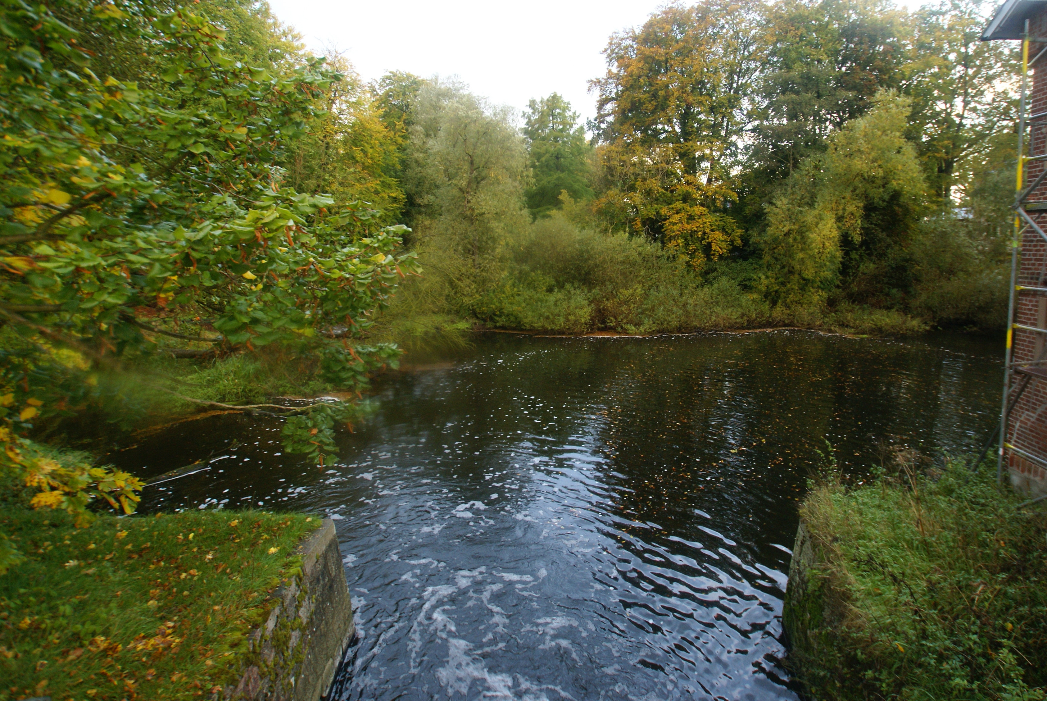 Hamburg (Wohldorf), Germany: The river Ammersbek next to the mill